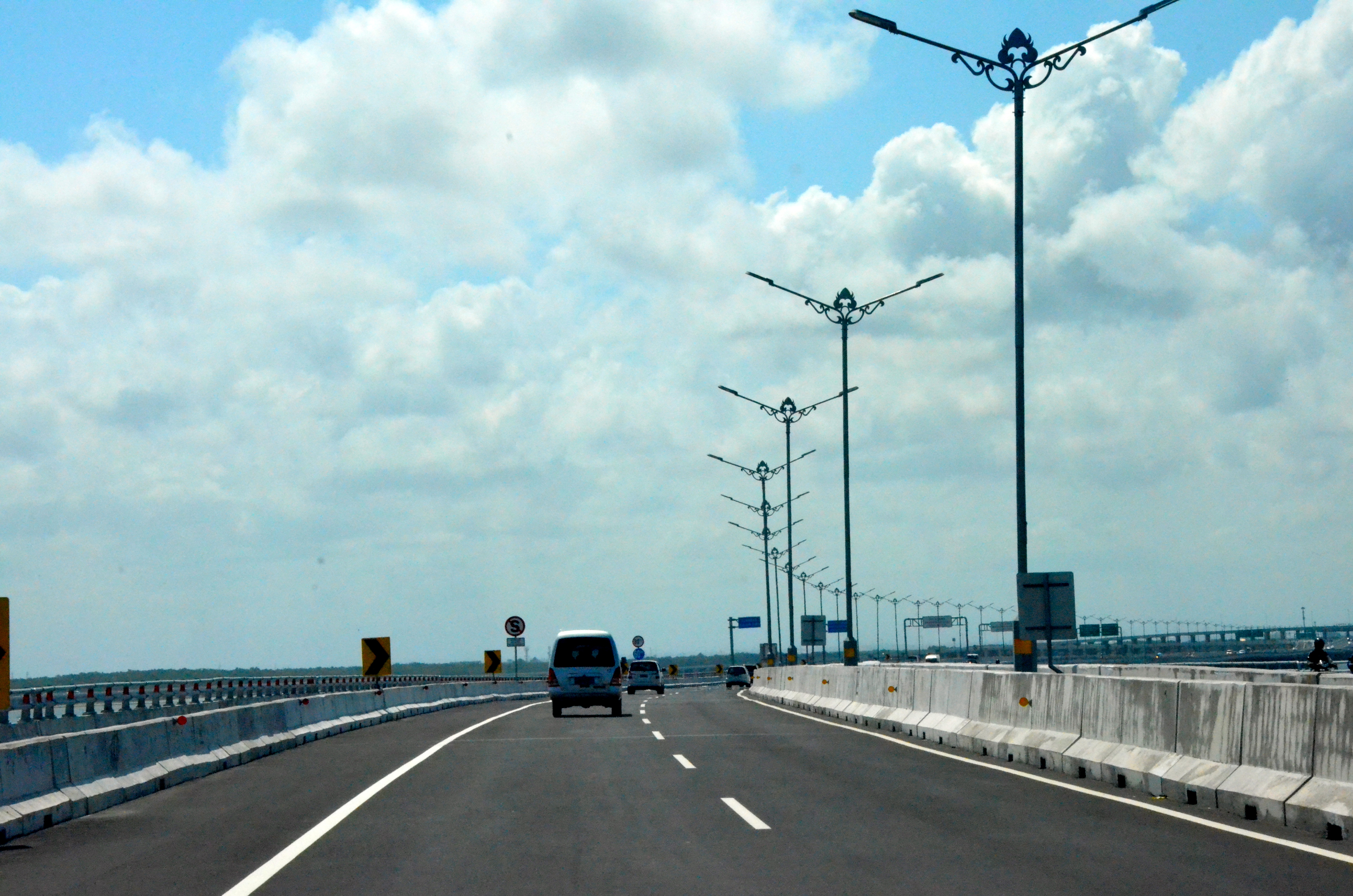 Bali Mandara Toll Road northbound view